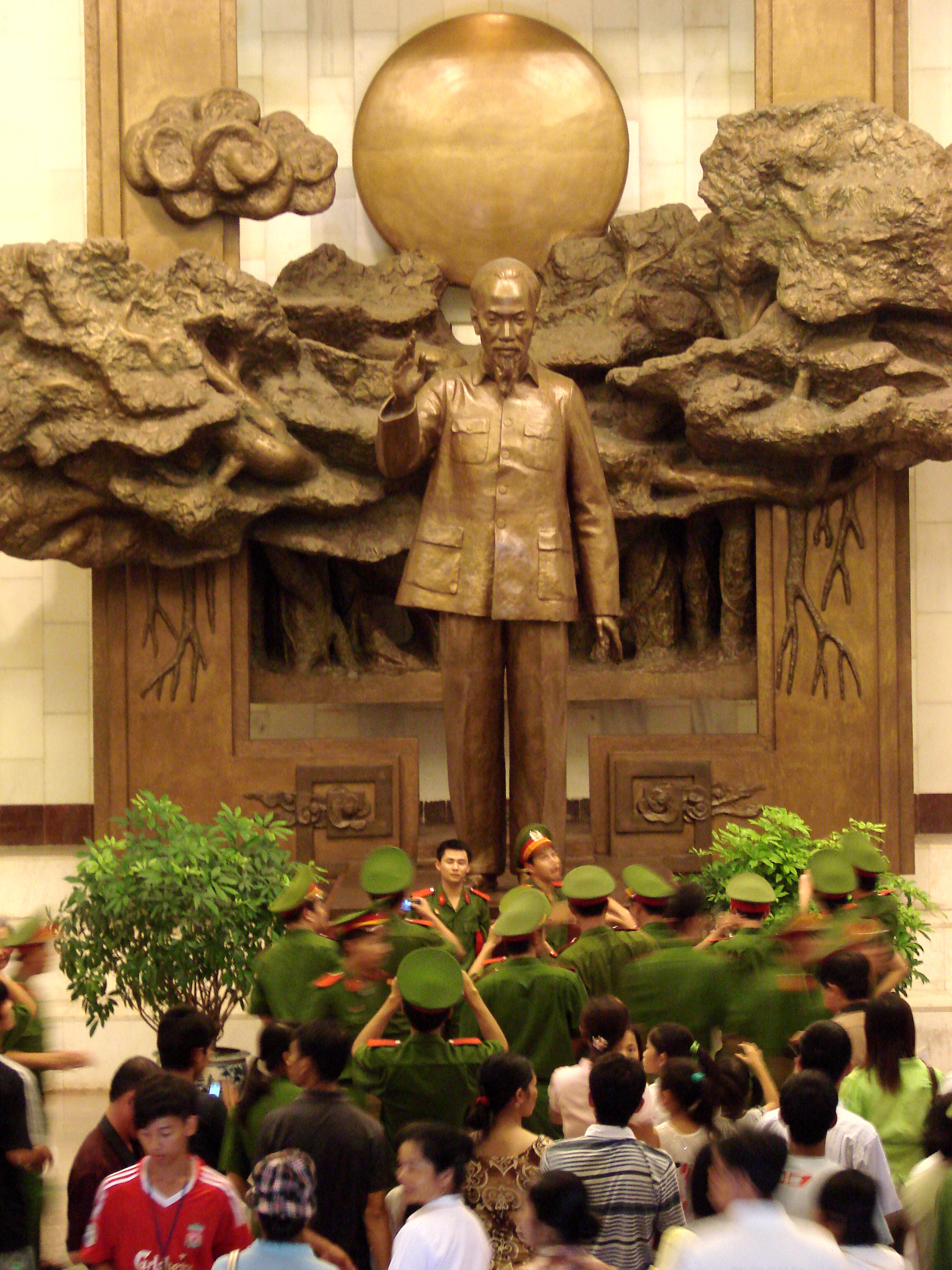 Ho Chi Minh Museum, Hanoi, Vietnam. June 2009.